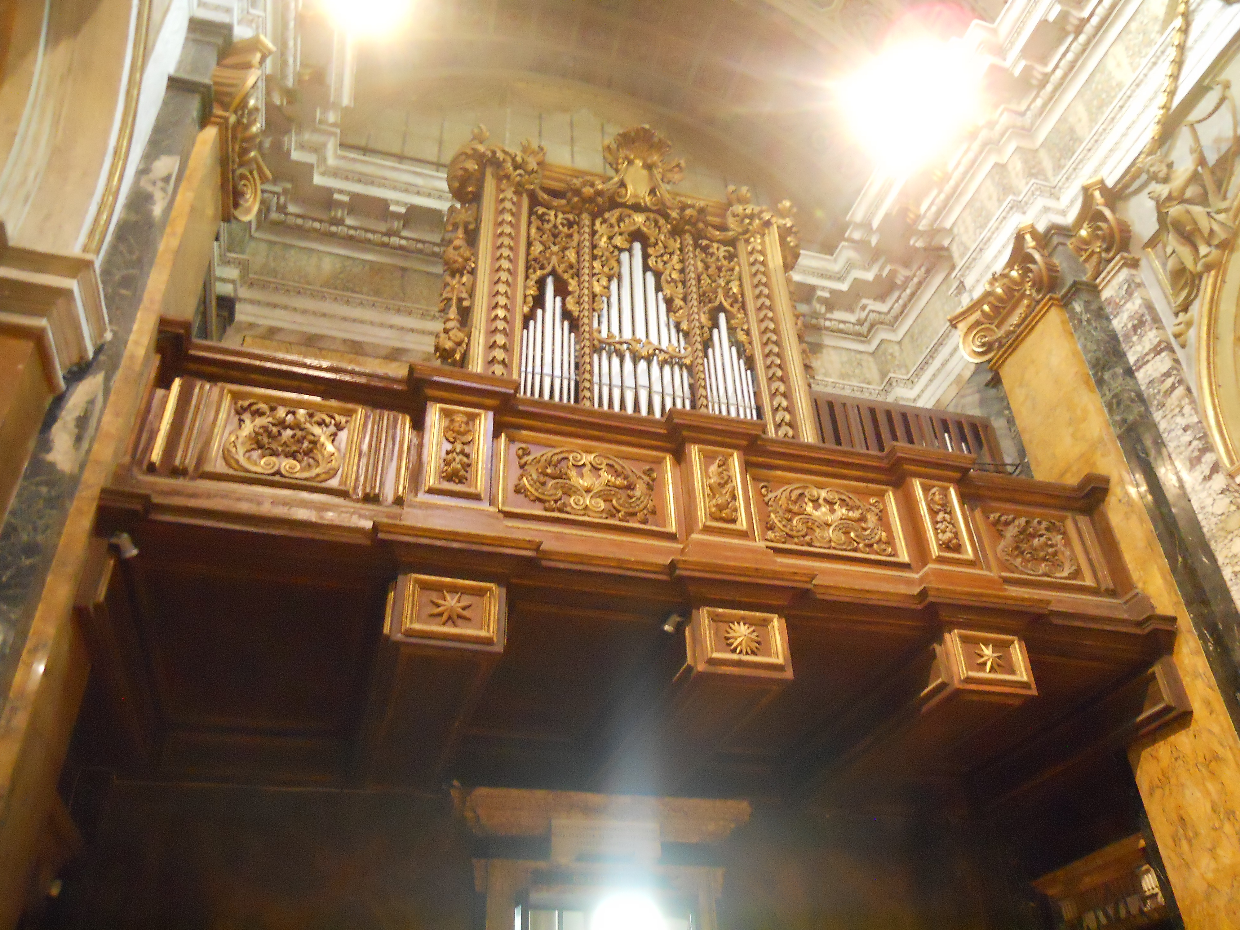 Organ - Cathedral of Rieti (Lazio, Italy)